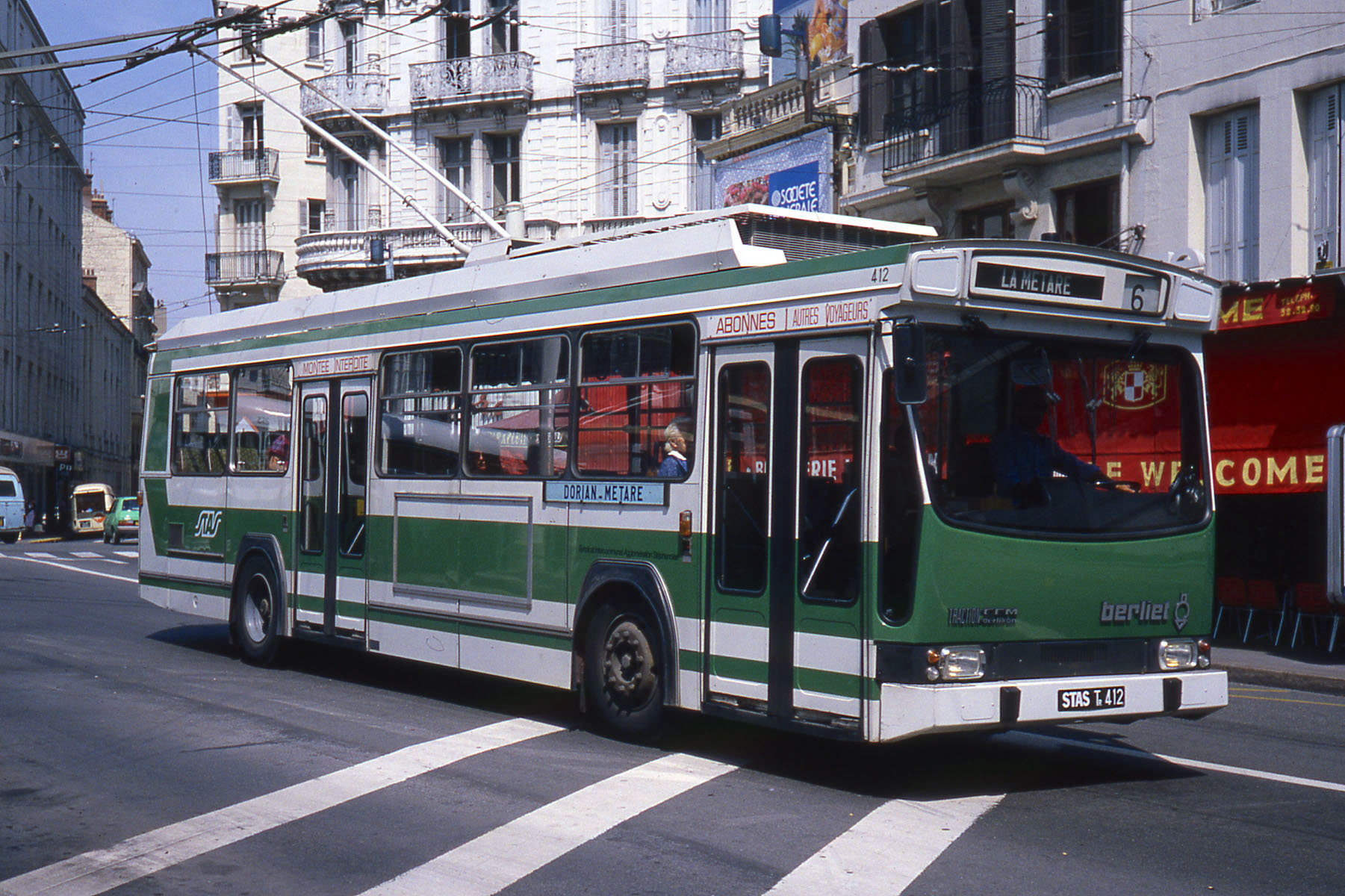 A Berliet ER100 trolleybus in St. Etienne, France, in 1981